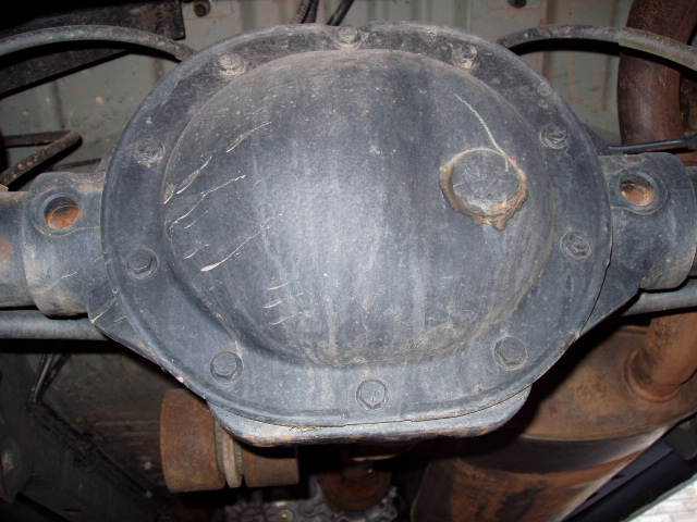 2005 Jeep Liberty Chrysler 8.25" Rear Axle Housing and Differential Cover